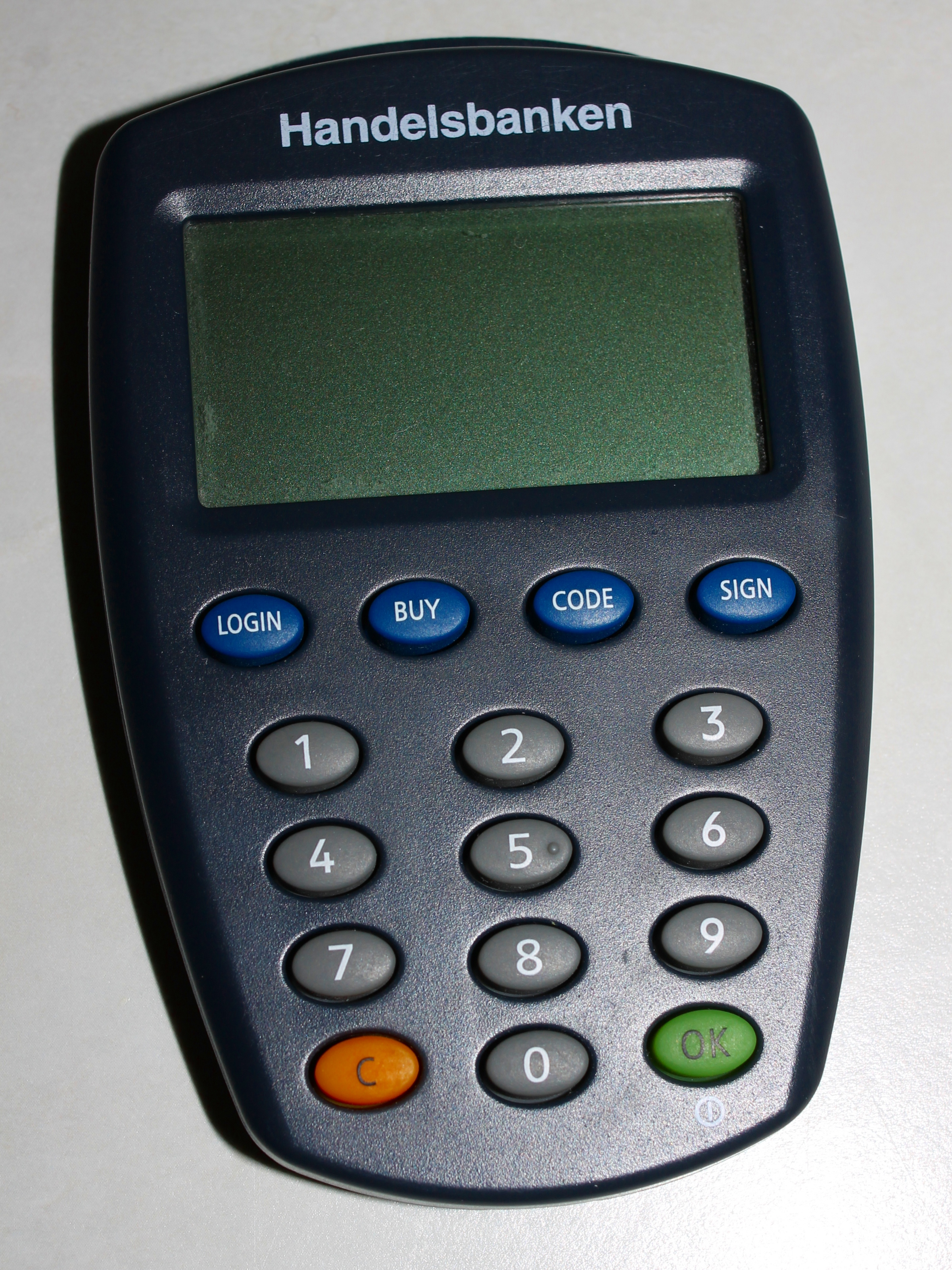 Security token device (for online banking) from Handelsbanken.